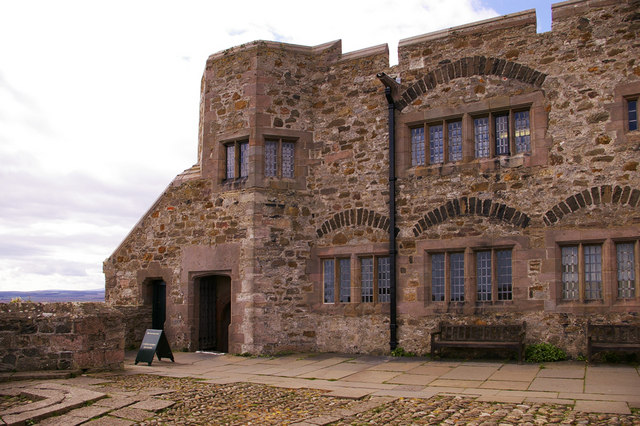 Entrance, Lindisfarne Castle, Holy Island Looking across towards the entrance to Lindisfarne Castle. Having climbed the steep cobbled path you enter the ramparts through this door.